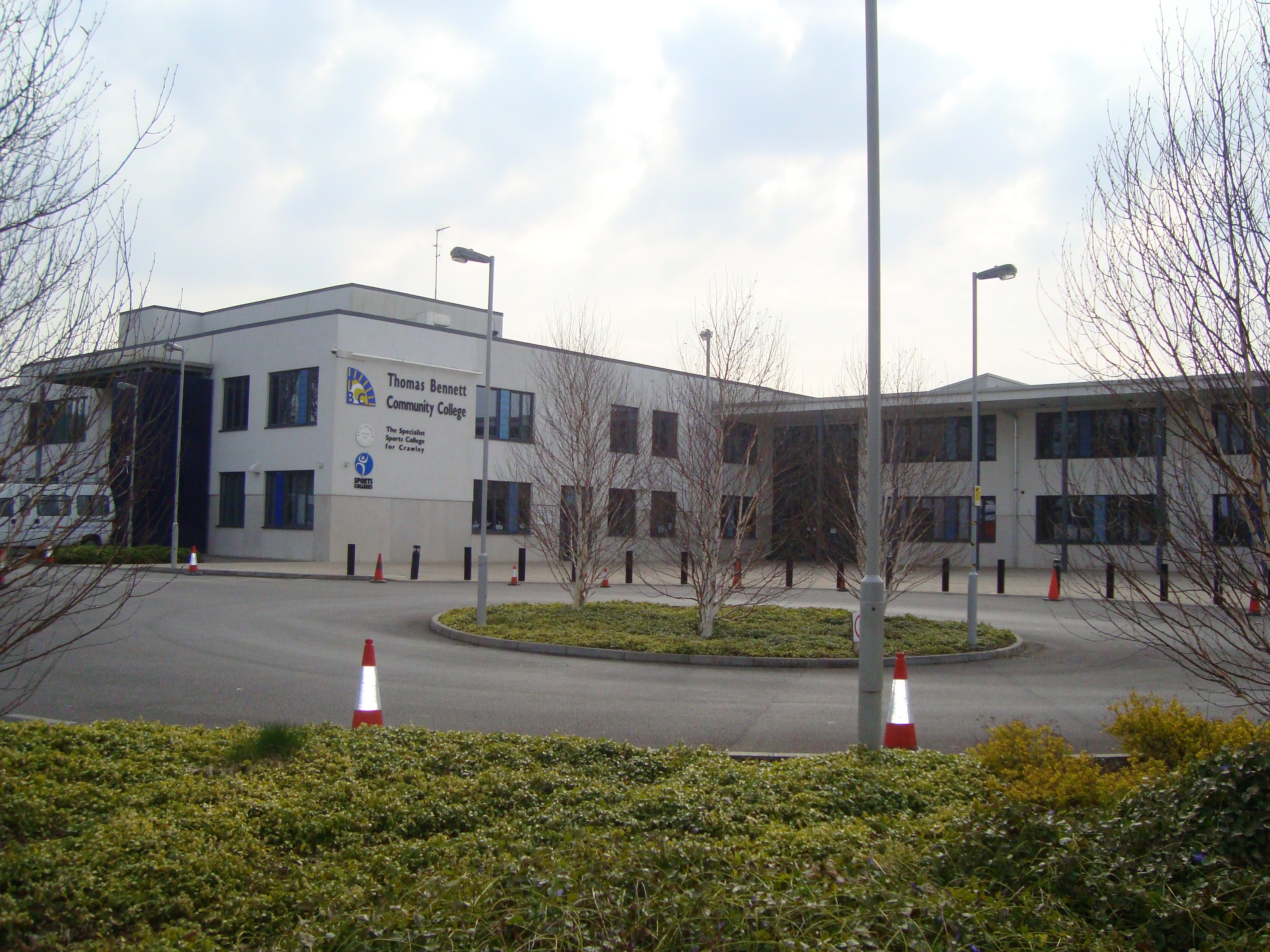 Thomas Bennett Community College, Crawley, West Sussex